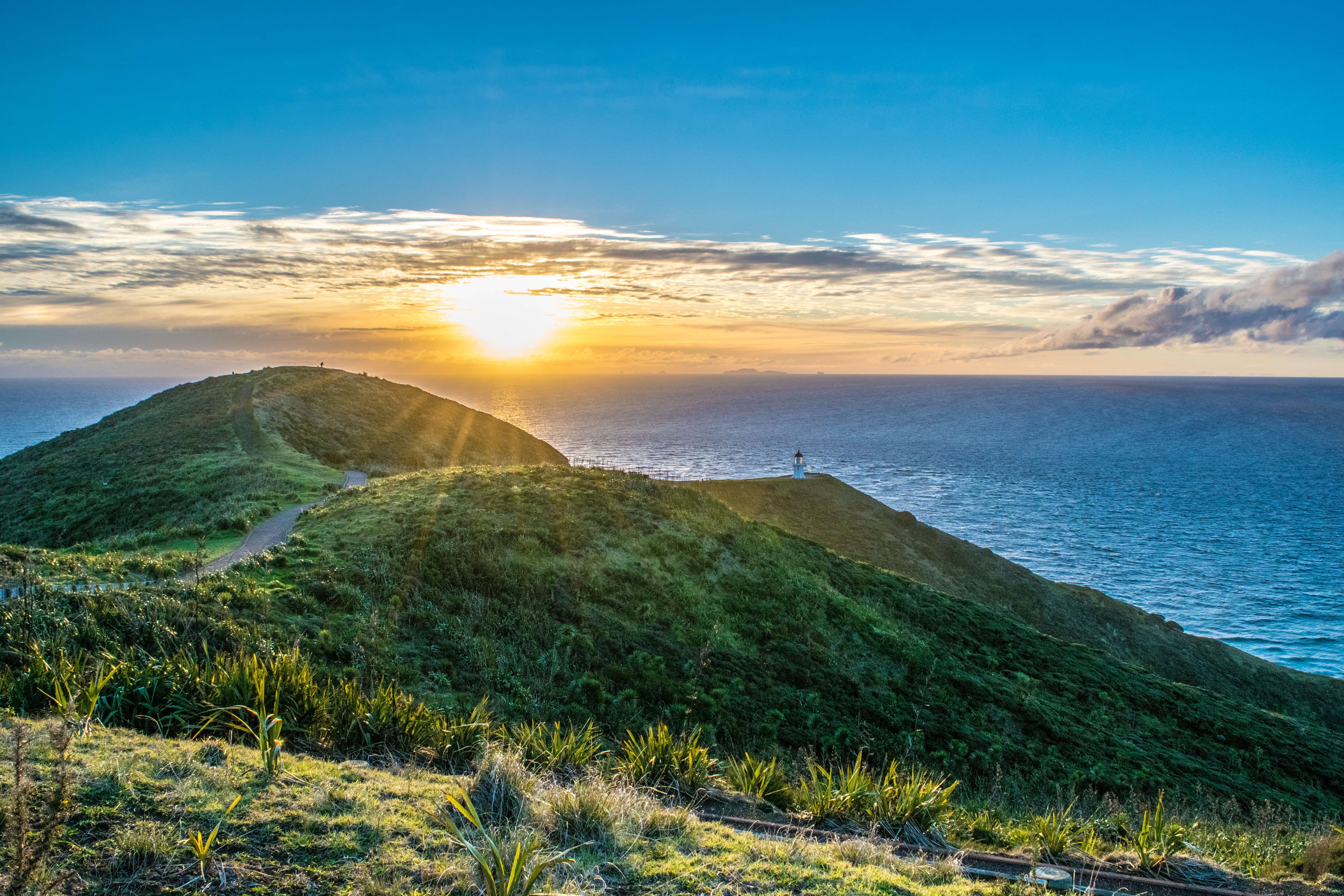 Cape Reinga Lighthouse at Sunset